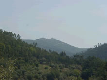 S. João do Deserto